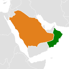 Map highlighting Oman and Saudi Arabia.